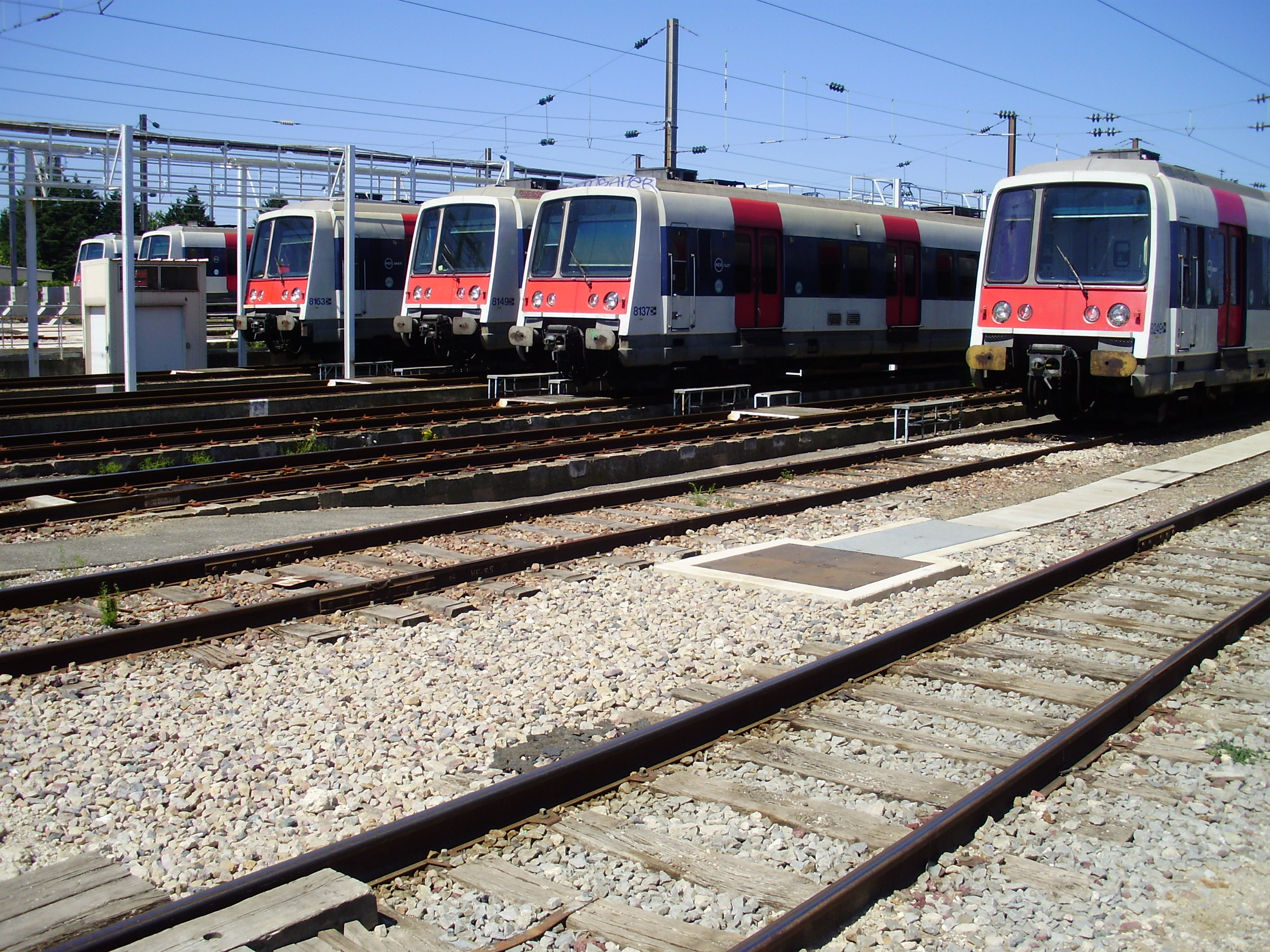 Mitry - Claye station, in Mitry-Mory, Seine-et-Marne, France (sidings for trains of the RER B line)